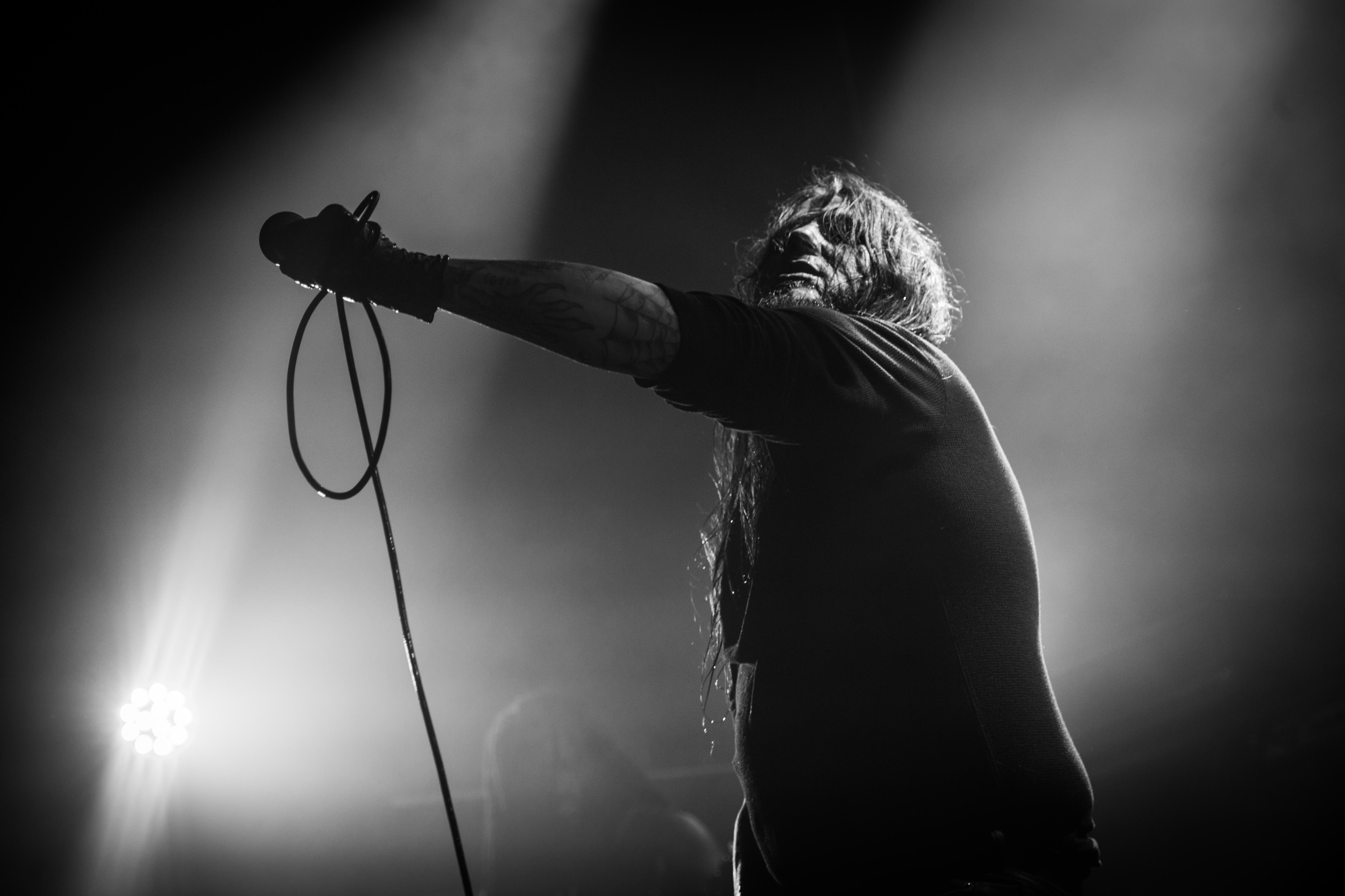 Cobalt live at Roadburn Festival, Tilburg, April 2017